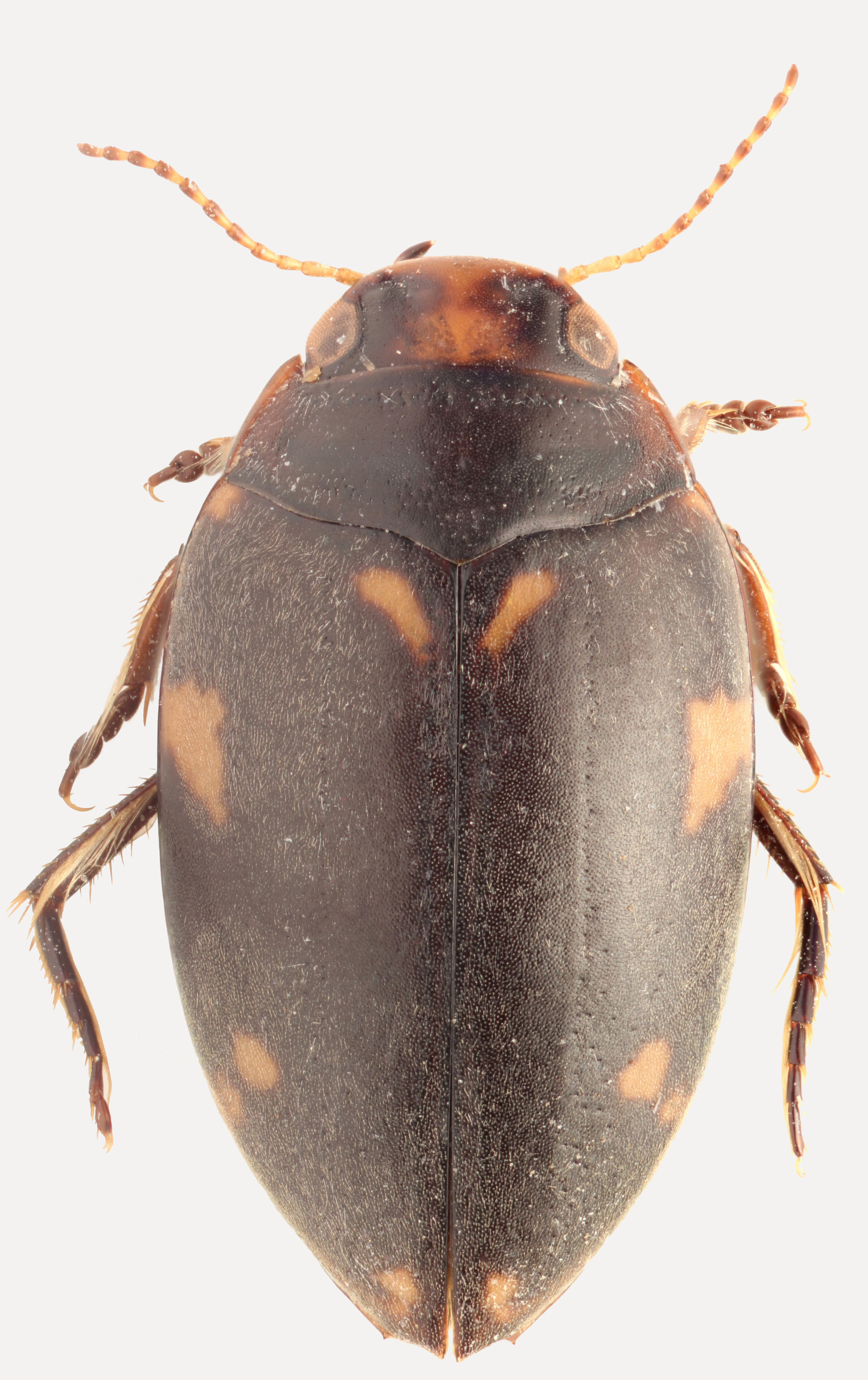 Dorsal habitus of Nebrioporus mascatensis from the United Arab Emirates